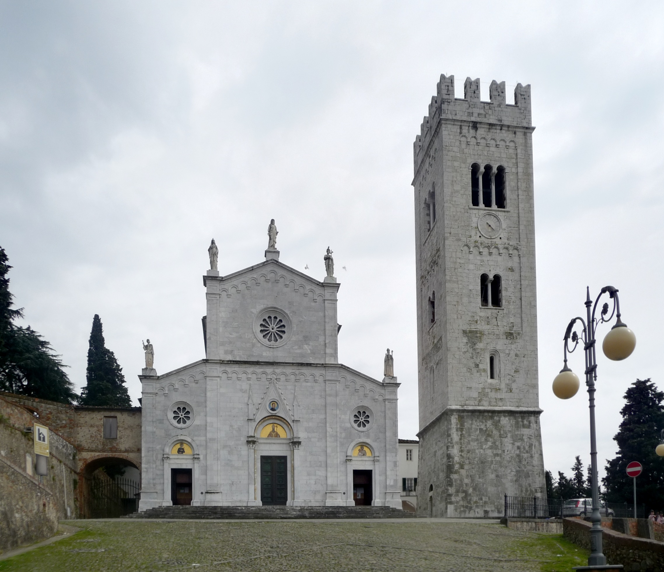 Church "San Giusto", Porcari, Province Lucca, Tuscany, Italy